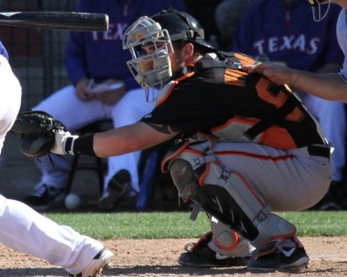 Konrad Schmidt bats for the Texas Rangers and Jackson Williams catches for the San Francisco Giants during a March 2013 spring training game in Arizona.